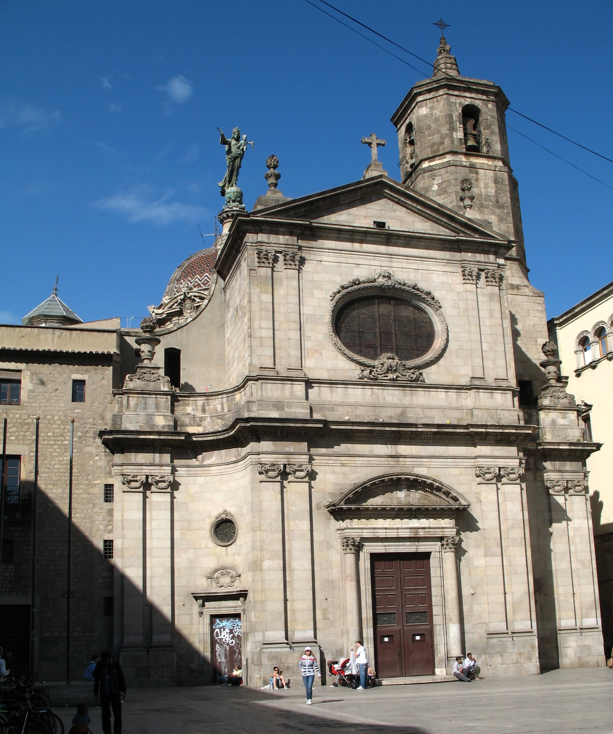 The Mercè basilica (Our Lady of Mercy, patroness of Barcelona) at Plaça de la Mercè in Barcelona, Spain.